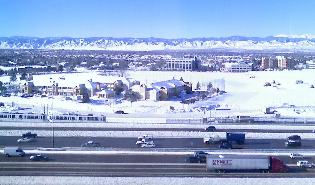 Light Rail Pulling into Bellview station with I-25 in foreground.